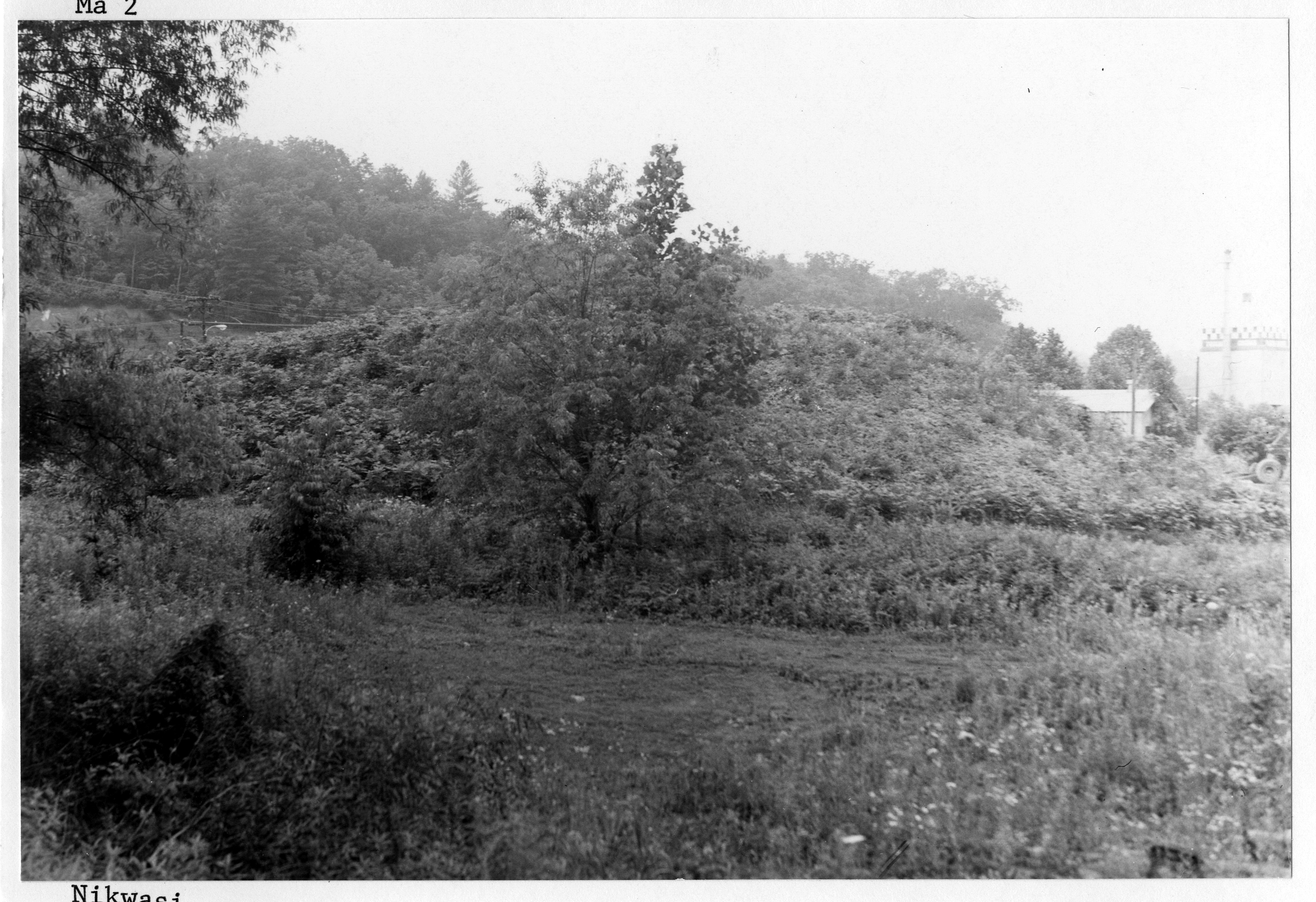 Image file downloaded on 01 March 2017 from the Carolina Digital Repository page at